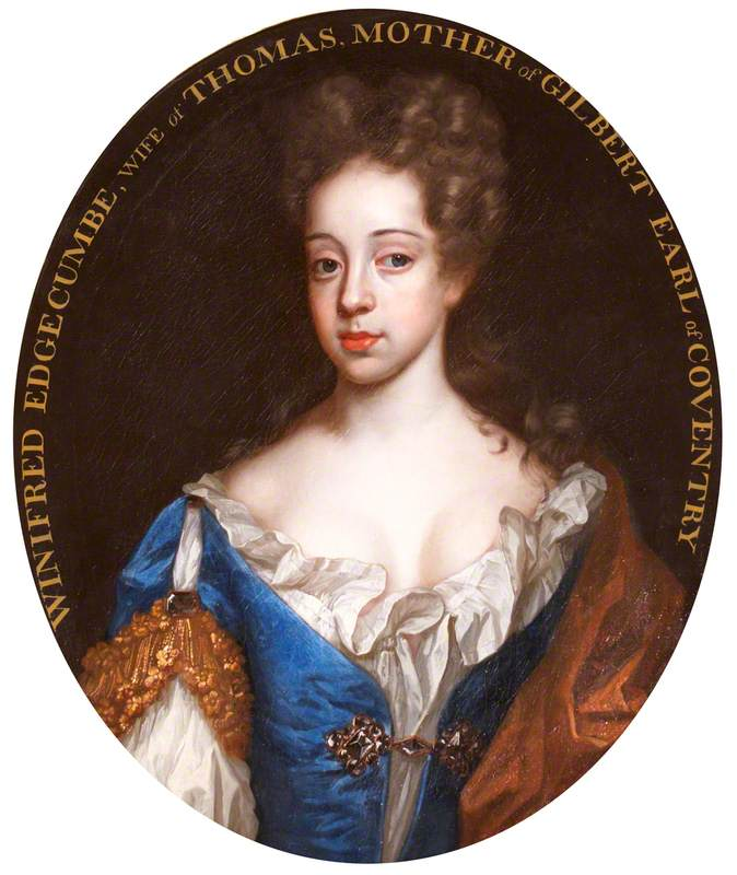 Portrait of Anne Somerset. The inscription on this painting is false.